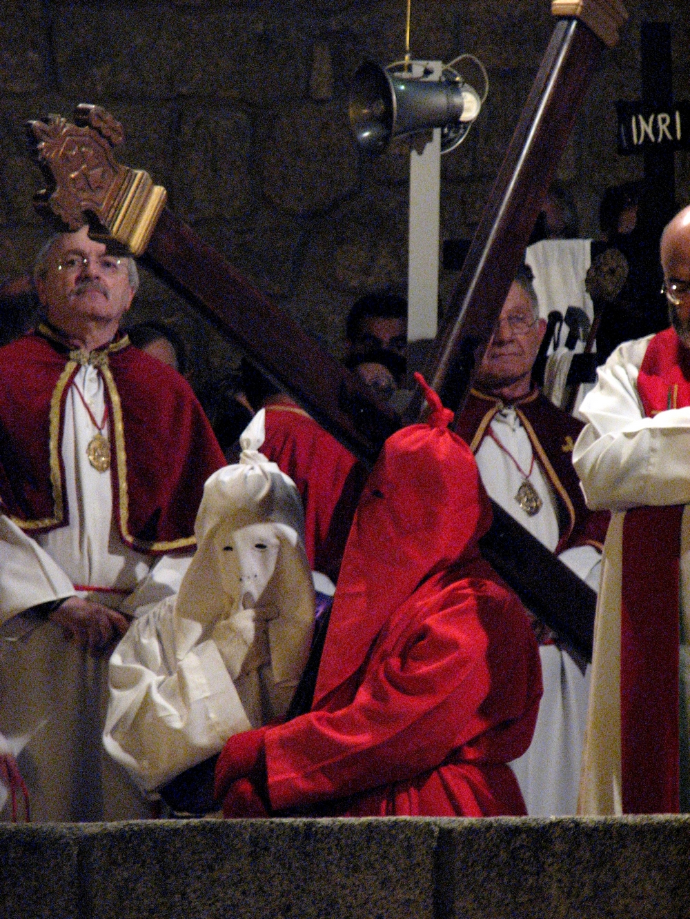 View from Catenacciu in Sartè (Corsica)